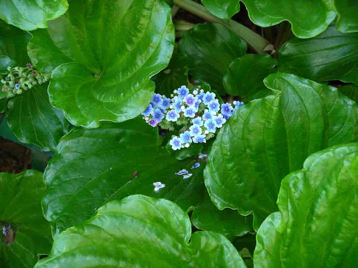 Chatham Island forget-me-not plant in Christchurch botanic gardens